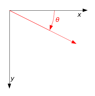 This image has been created to illustrate "rotation matrix" article It shows a clockwise rotation of angle theta in axes that are *not* oriented in the standard way. x goes to the right and y goes to the bottom.